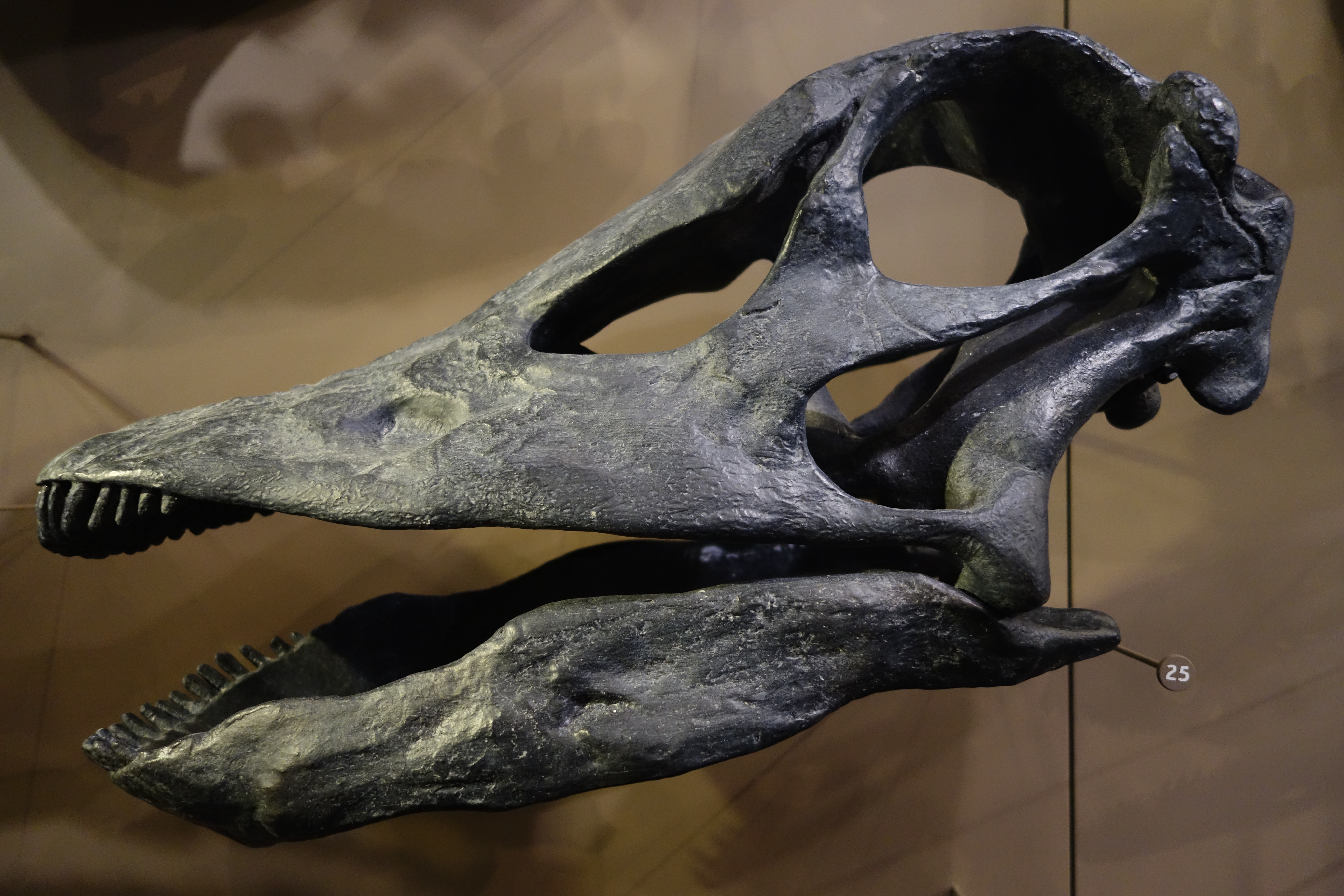 Barosaurus lentus skull cast, on display at the Natural History Museum of Utah, Salt Lake City.